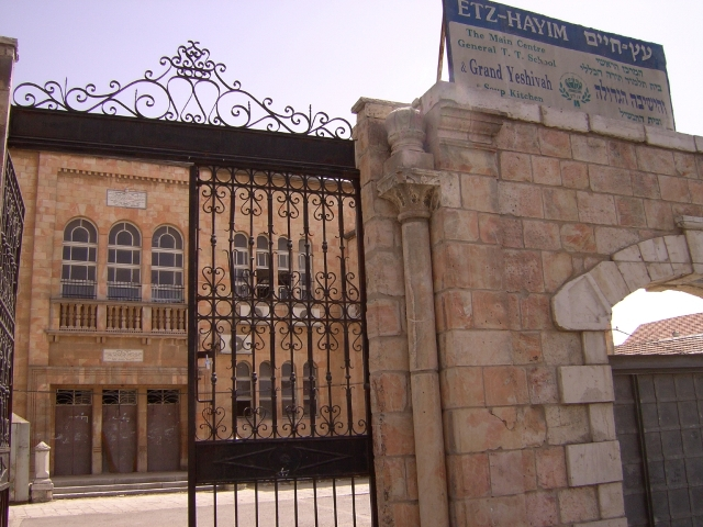 Etz Chaim Talmud Torah & Yeshivah, Jaffa Road, 113-115, Jerusalem